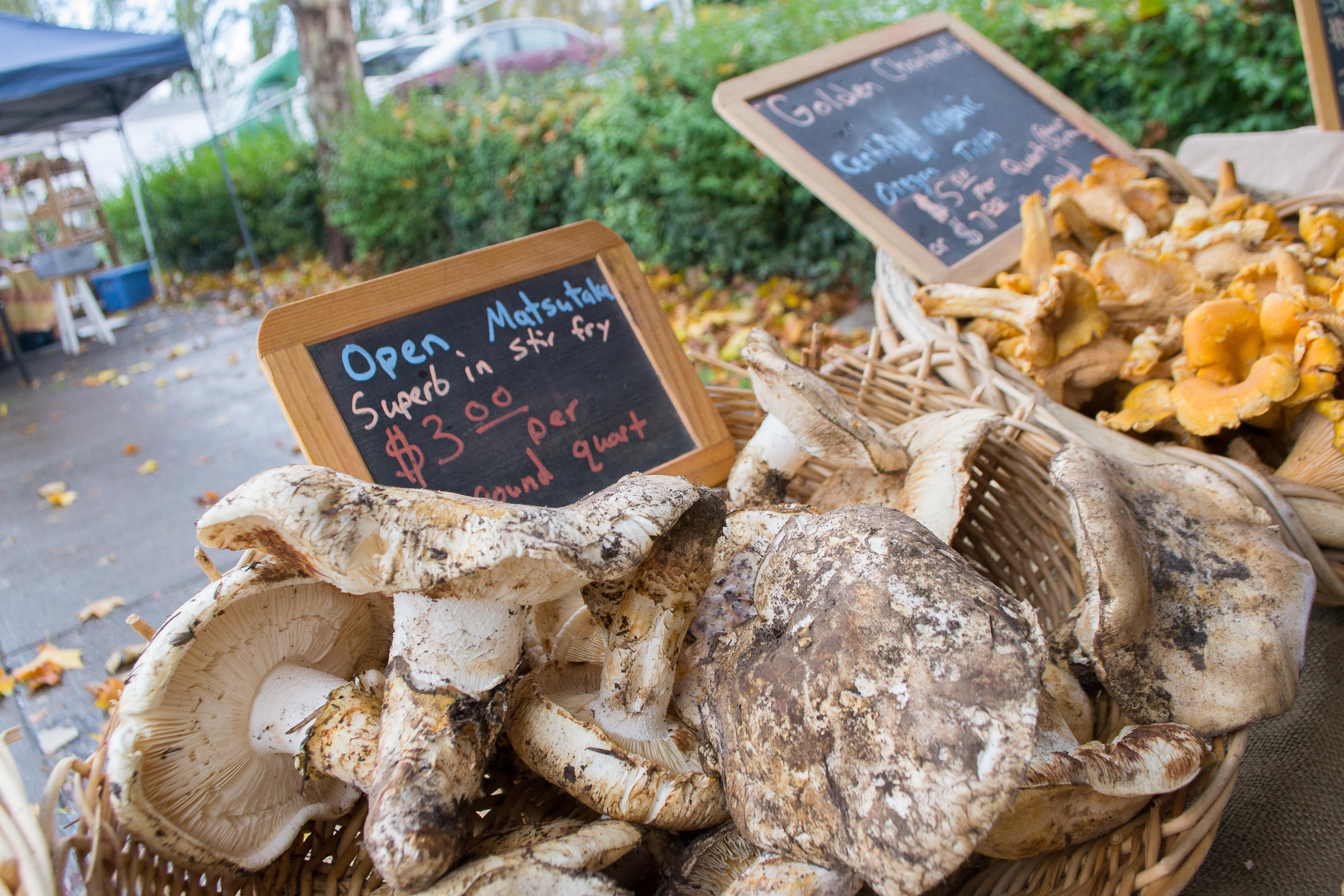 Open matsutake mushrooms at the Eugene Saturday Market